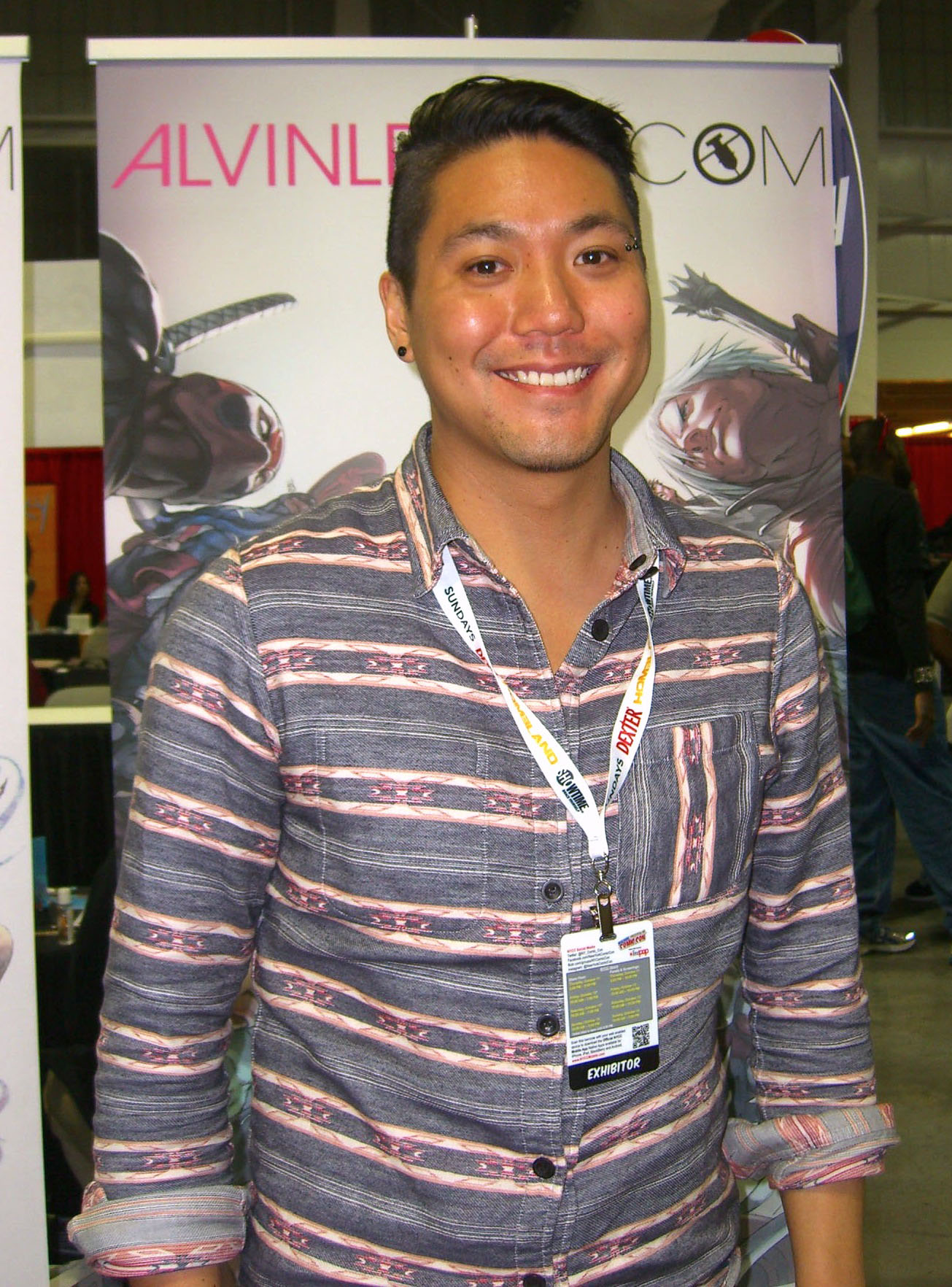 Comics creator Alvin Lee on Day 2 of the 2012 New York Comic Con, Friday October 12, 2012 at the Jacob K. Javits Convention Center in Manhattan. This photo was created by Luigi Novi. It is not in the public domain, and use of this file outside of the licensing terms is a copyright violation.